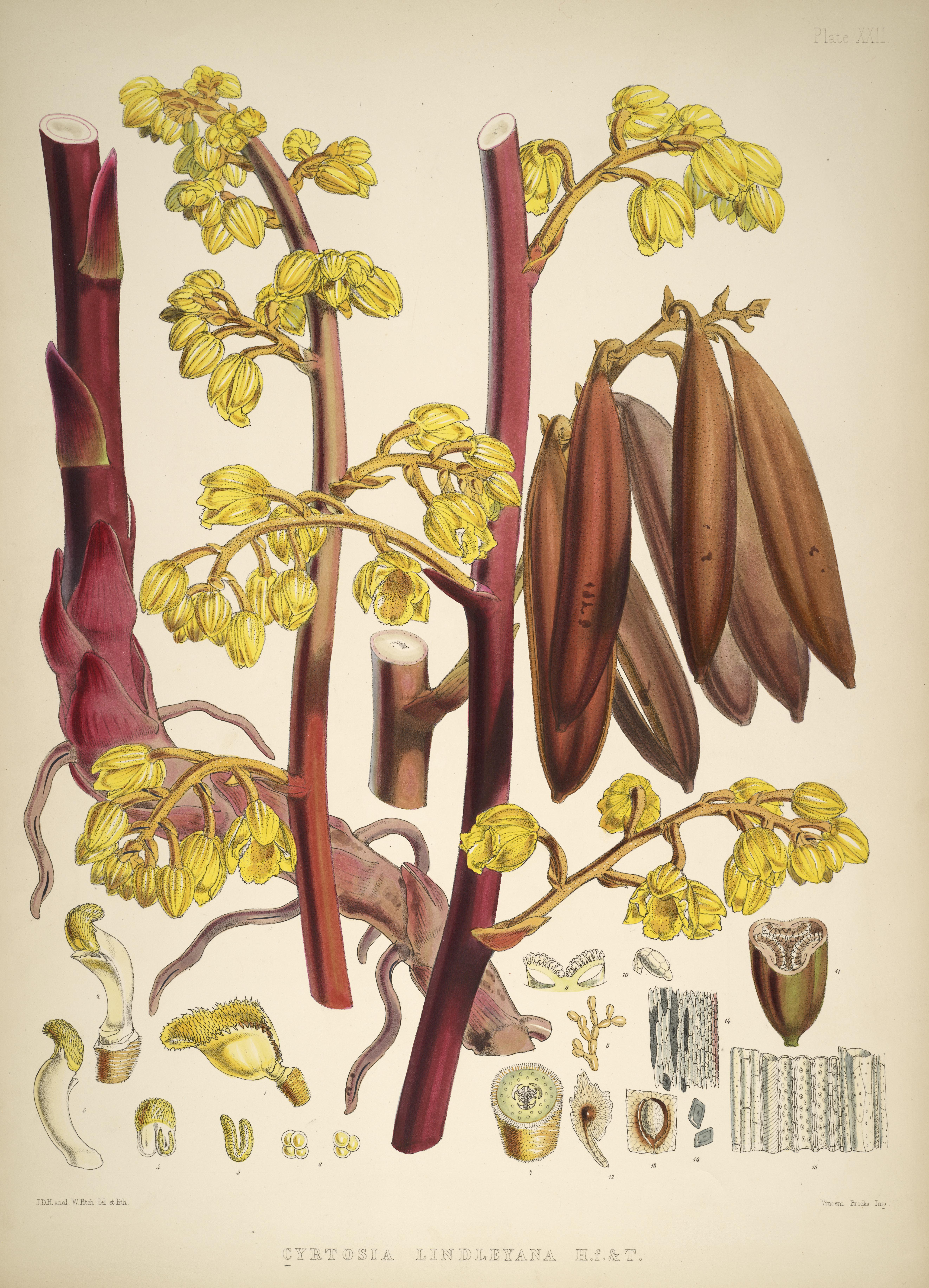 Illustrations of Himalayan plants :chiefly selected from drawings made for the late J.F. Cathcart, Esq.re of the Bengal Civil Service /the descriptions and analyses by J.D. Hooker ; the plates executed by W.H. Fitch.